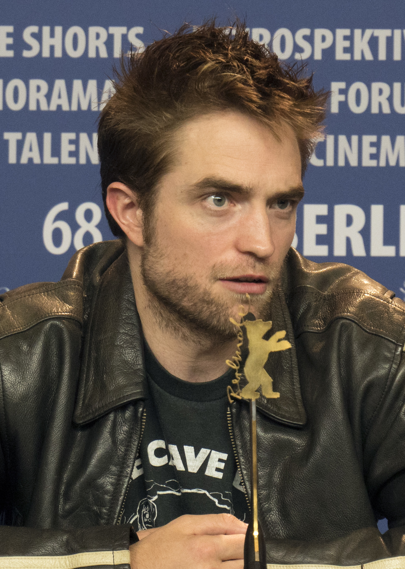 Robert Pattinson at the press conference of Damsel at Berlinale 2018